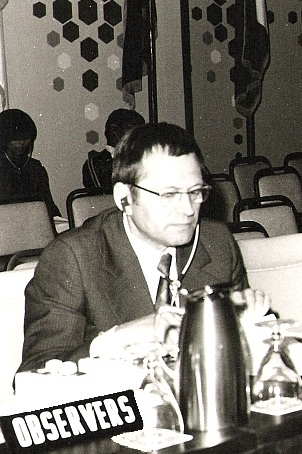 Observer GDR - 18th Session Governing Council - Manila 1974 July